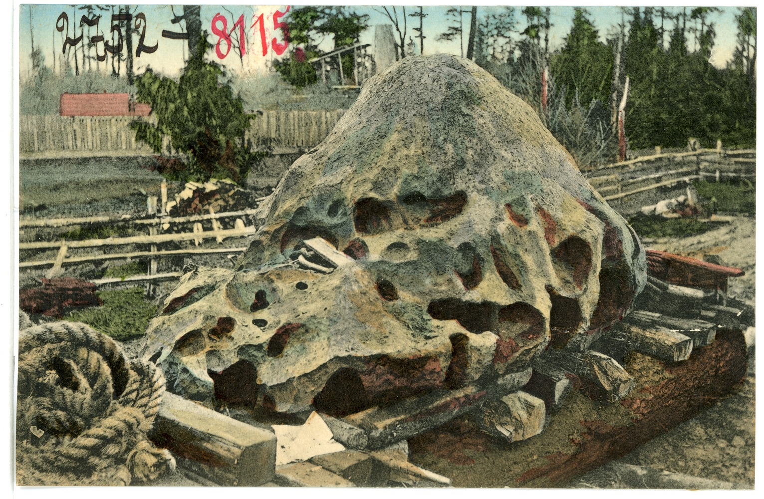 Oregon City meteorite, also known as Willamette meteorite. Discovered in Oregon City in 1902. This postcard is from publisher Brück & Sohn in Meißen ( This postcard has a unique number 08115 and is available in a higher resolution at the publisher. This images was uploaded in a cooperation project between Wikipedians and the publisher.